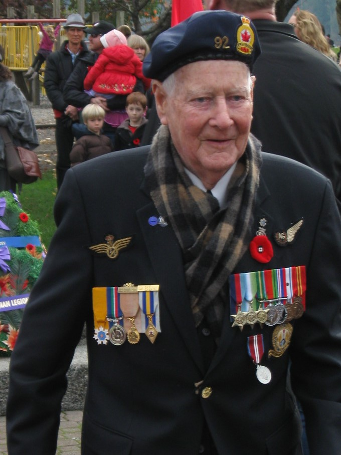 Nils at the Remembrance Day celebration, November 11, 2016, on Salt Spring Island, British Columbia, Canada.